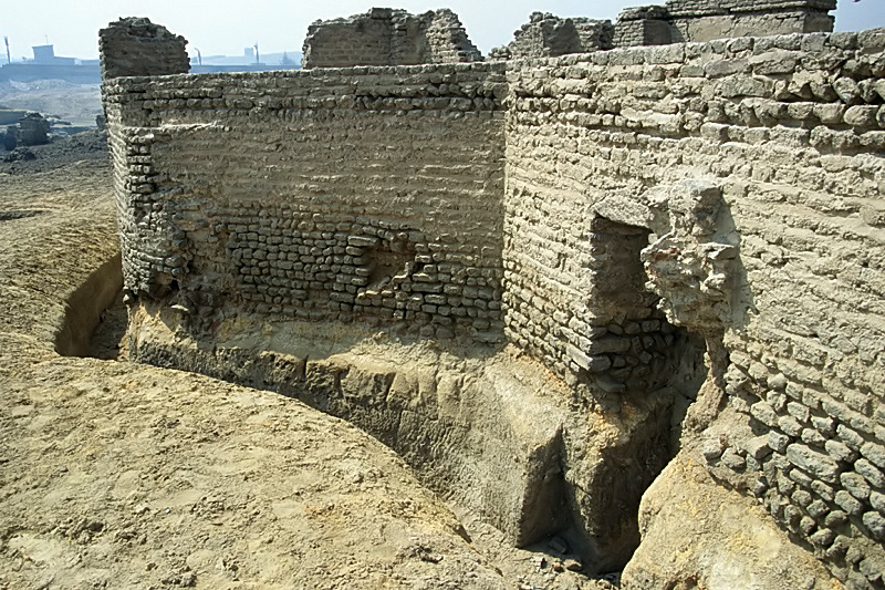 Brick wall of a building, Fustat Ruins, Old Cairo, Egypt